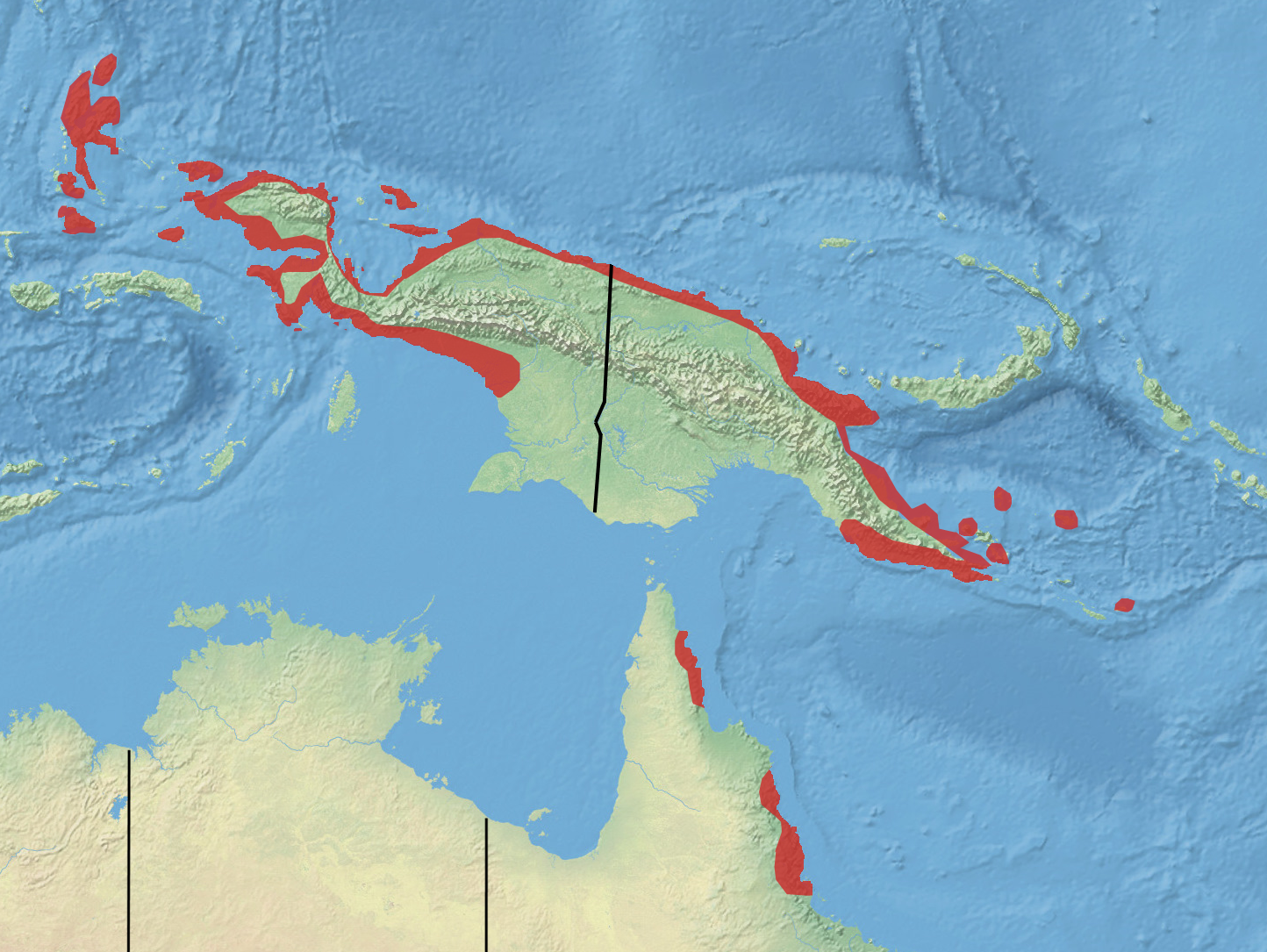 The Distribution of the Spectacled Flying-fox